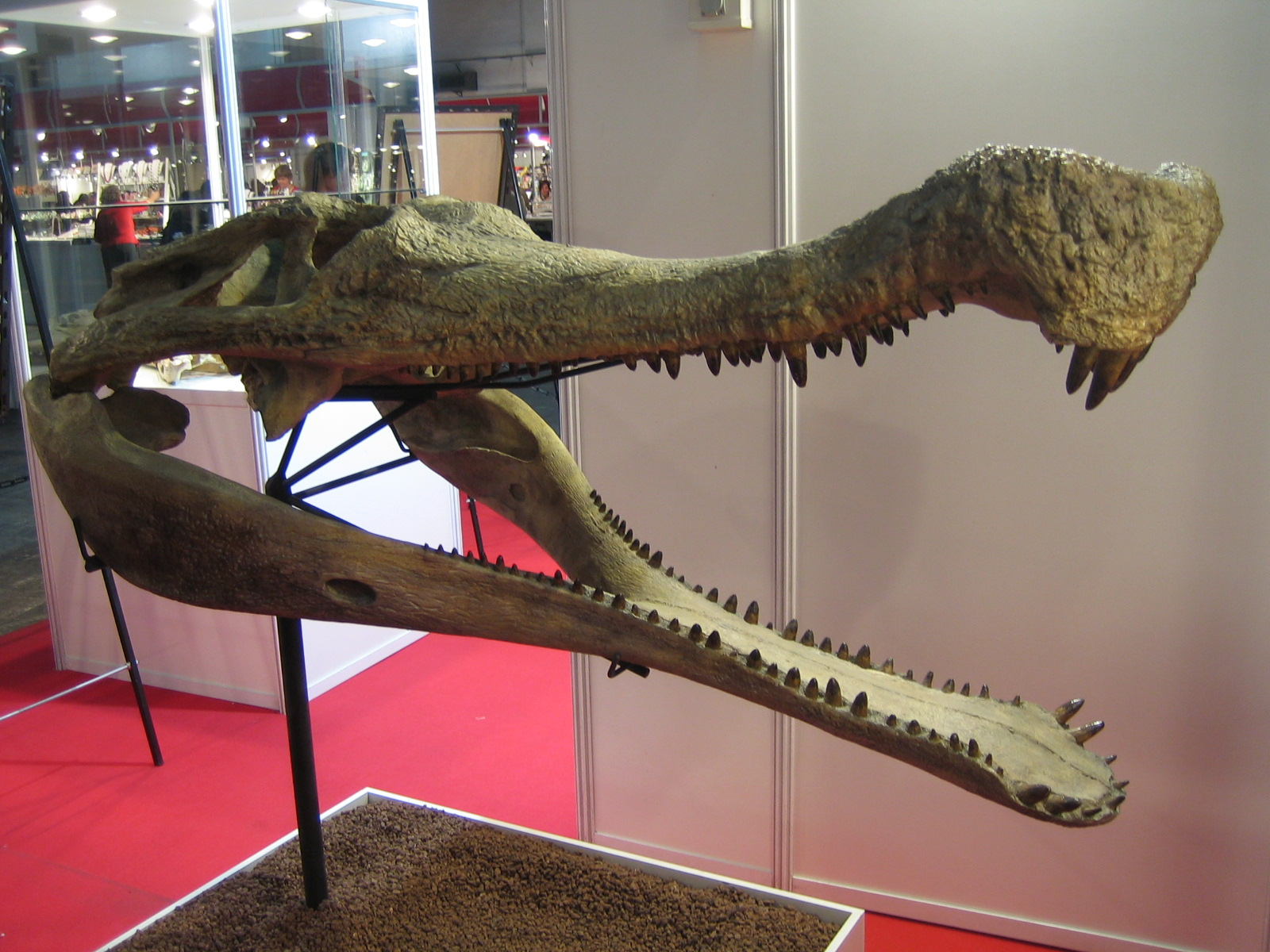 Sarcosuchus imperator in Expominer 2007, Barcelona